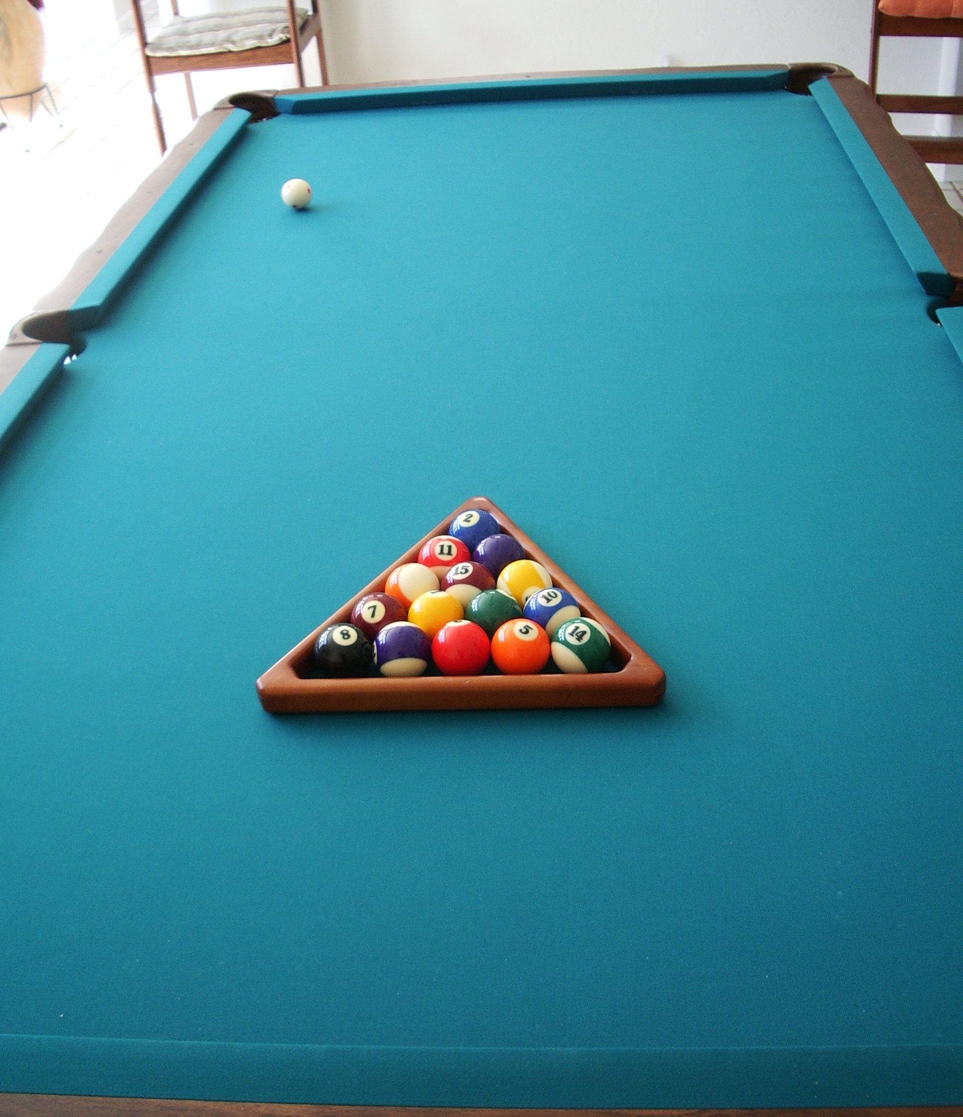 Racking up a game of cribbage pool, with the 15 ball in the middle, no two corner balls adding up to 15, and the apex ball on the foot spot. This is the wider view; see below for a cropped version.